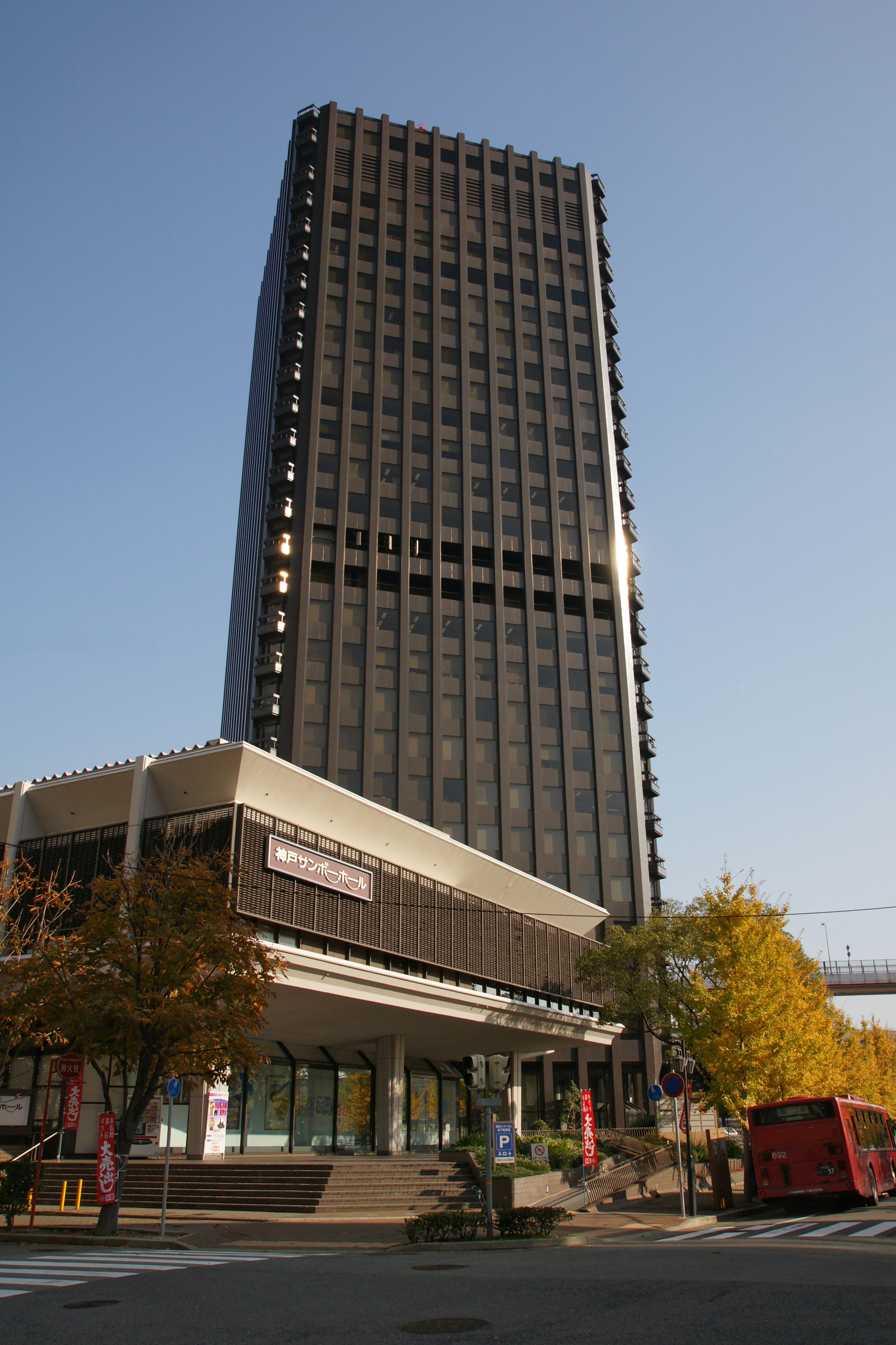 Kobe Commerce, Industry and Trade Center Building, Kobe, Hyogo prefecture, Japan